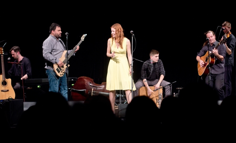 DOTmy - release of a new CD